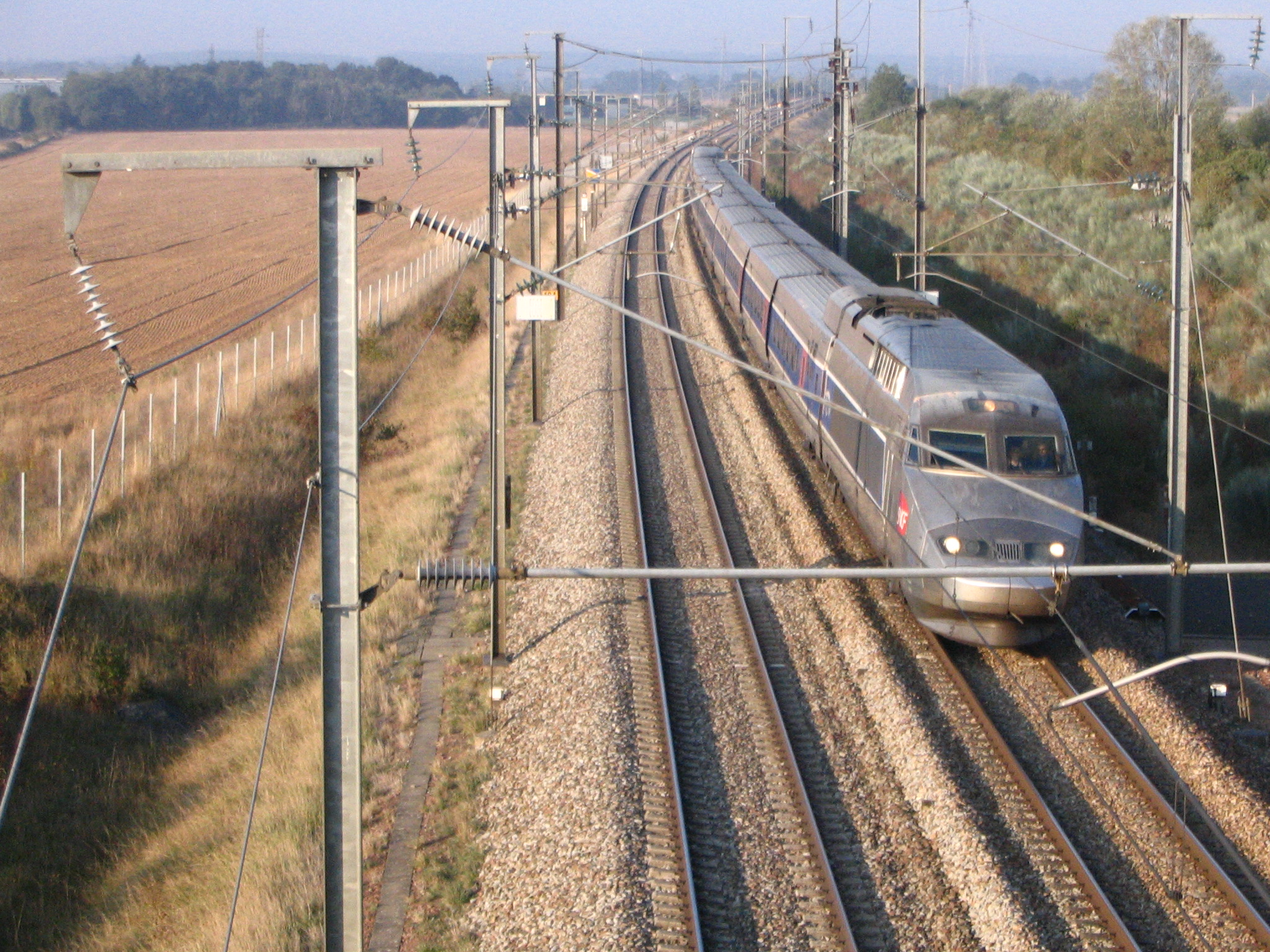 A TGV on the LGV Atlantique, near Le Perruchet, in the district of Bonneval, Eure-et-Loir, France.